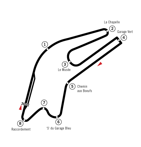 PNG version of Bugatti Circuit.svg for those with browsers like IE7 that don't support SVG. Created with Inkscape. Previous version didn't line up well with the current track. I have fixed that.